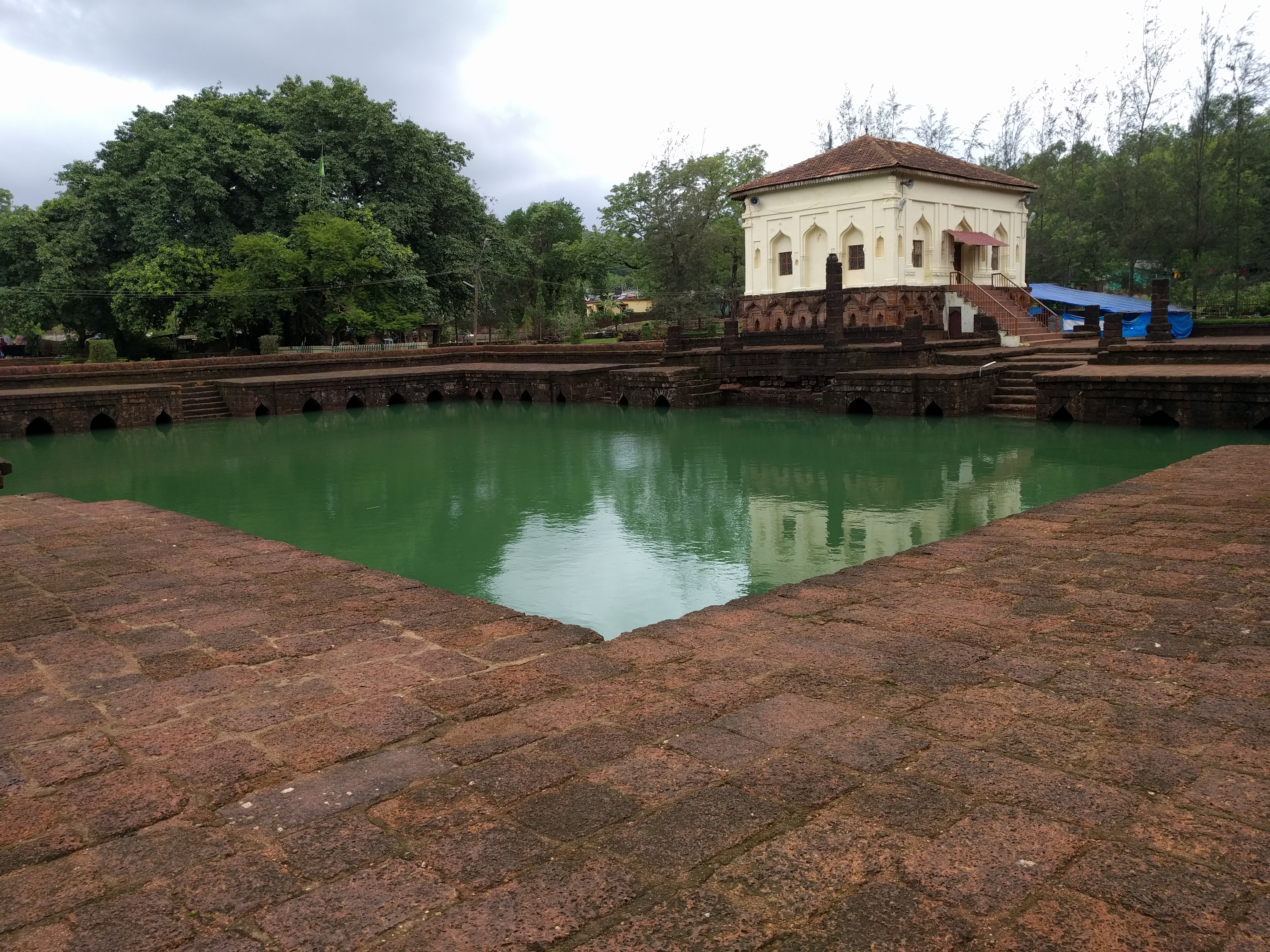 Safa Masjid is one of the 27 mosques built in Ponda, Goa by Ibrahim Adilshah, a king of the Sultanate of Bijapur, in 1560. Adjacent to the mosque, on the South, is a masonry tank measuring 30 by 30 meters with Mihrab designs.